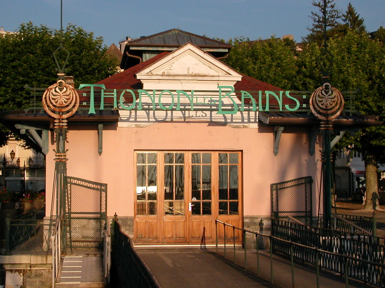 Former toll building in the port of Thonon-les-Bains